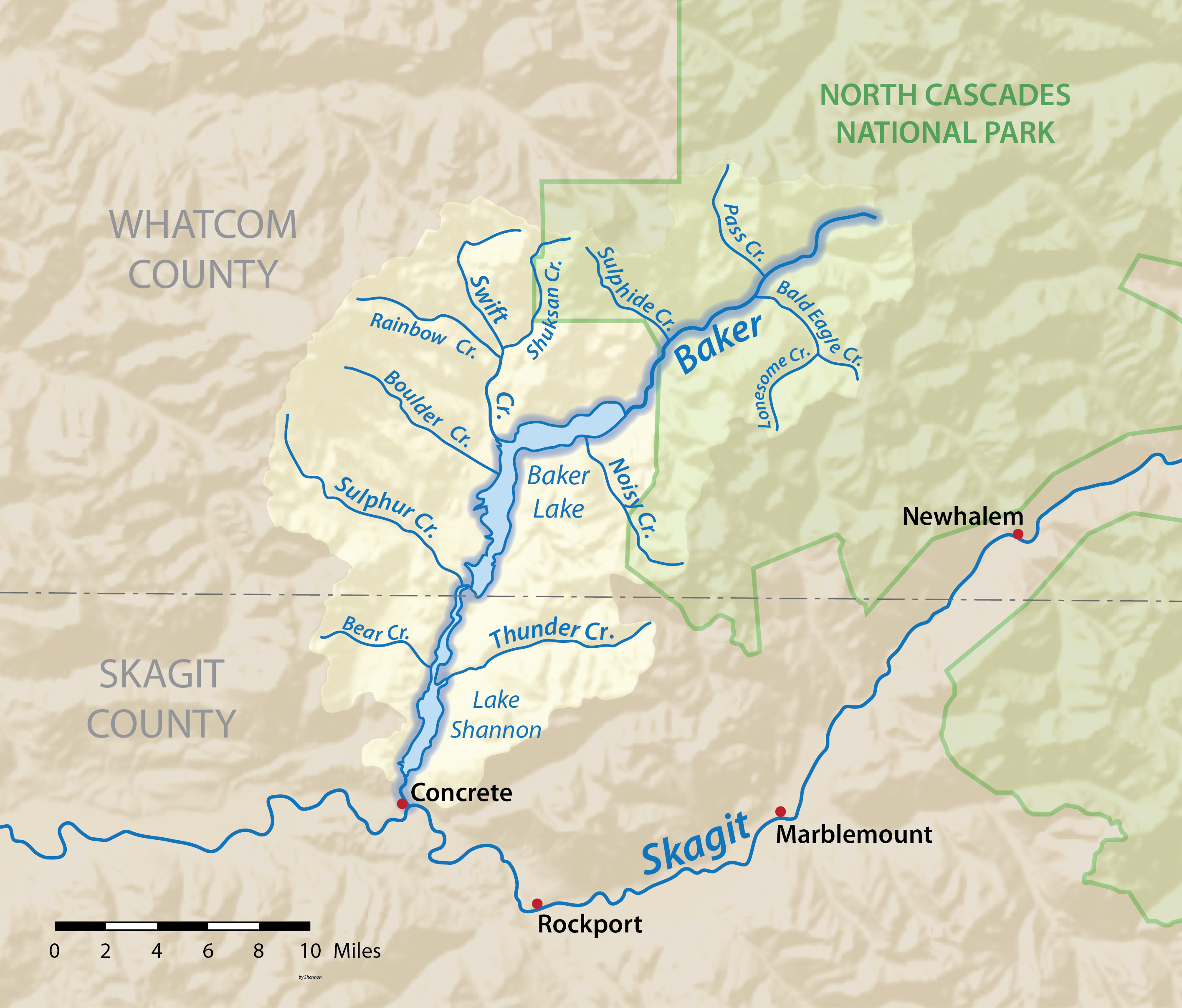 Map of the Baker River watershed in Washington, USA. Made using USGS National Map data.